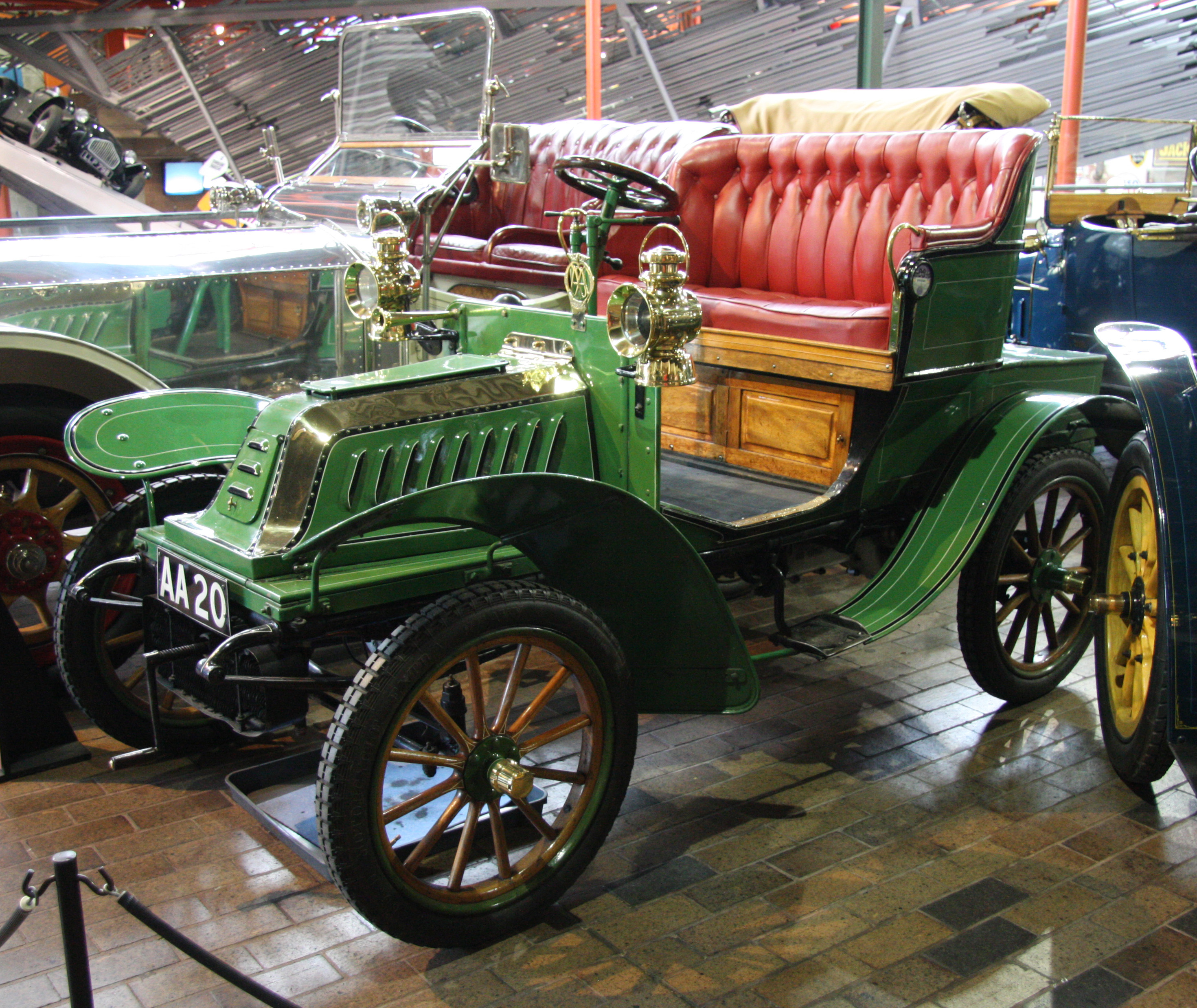 De Dion Bouton 6 HP Populaire Type Q with horizontal single-cylinder engine (698 cc). One of the original five cars that launched the Montagu Motor Museum.